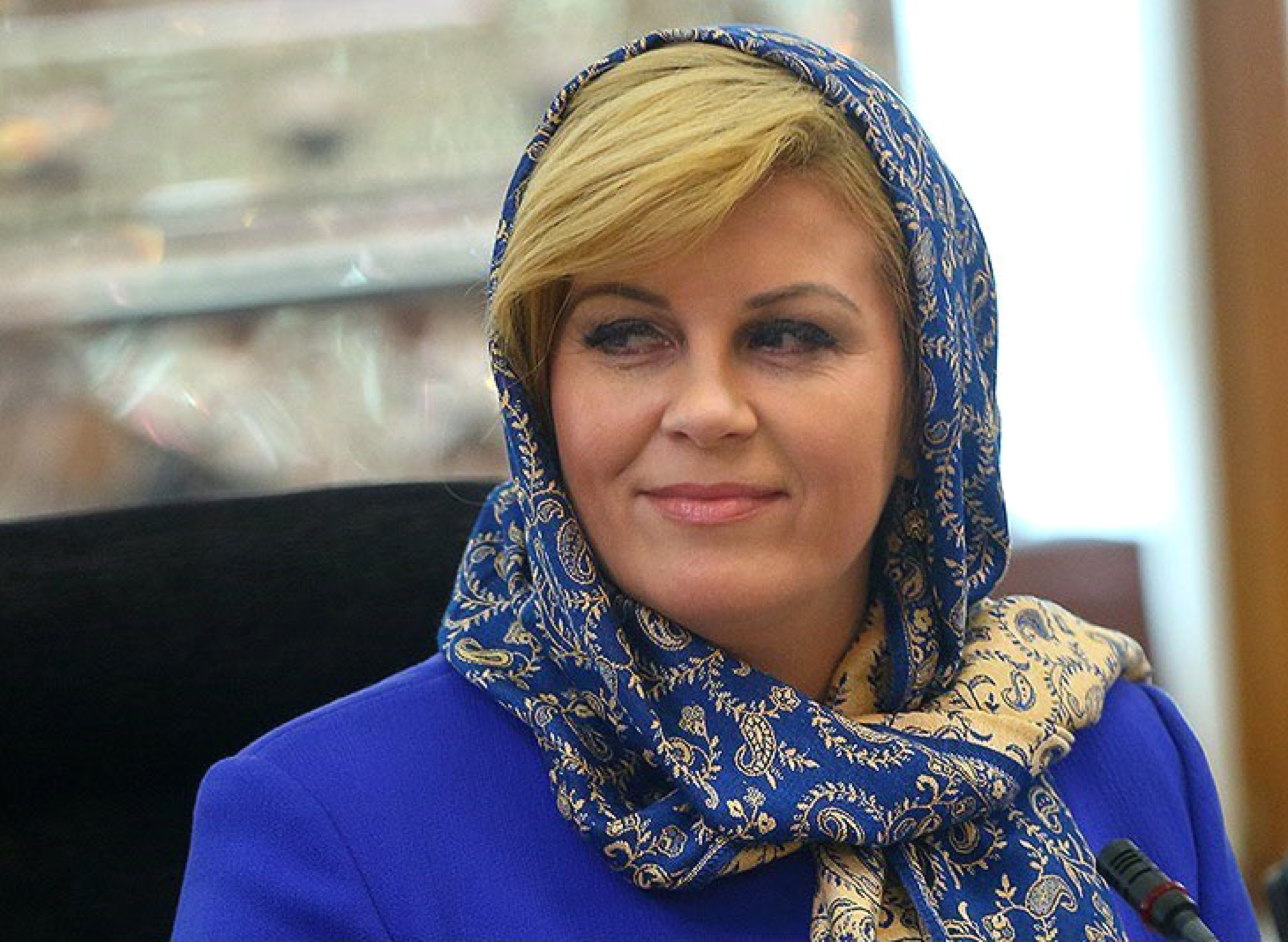 Kolinda Grabar-Kitarović in meeting with Ali Larijani, spokeman of Islamic Consultative Assembly (Parliament of Iran).